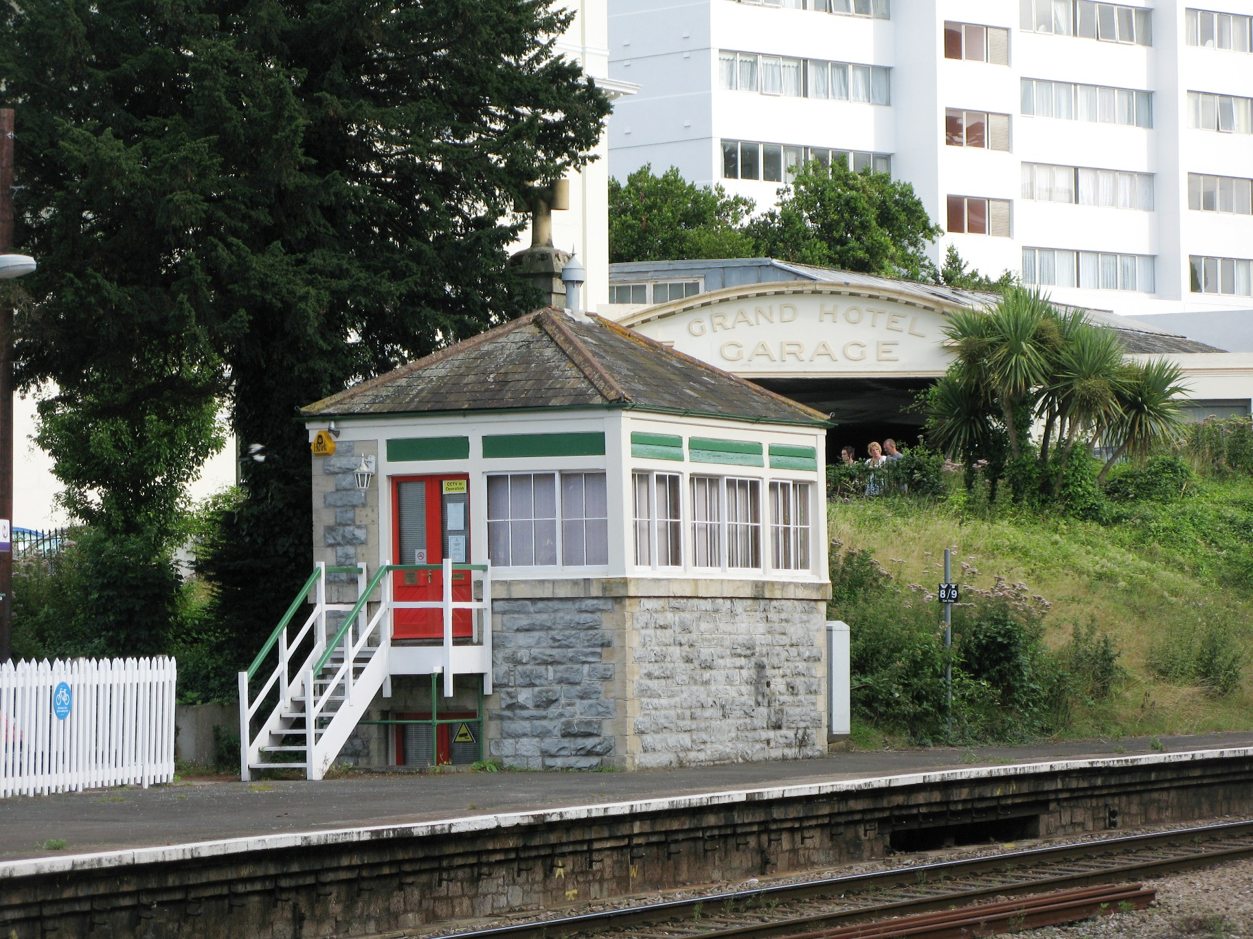 The former Torquay South Signal Box. Made redundant by a resignalling scheme in the 1980s, it is now in commercial use.